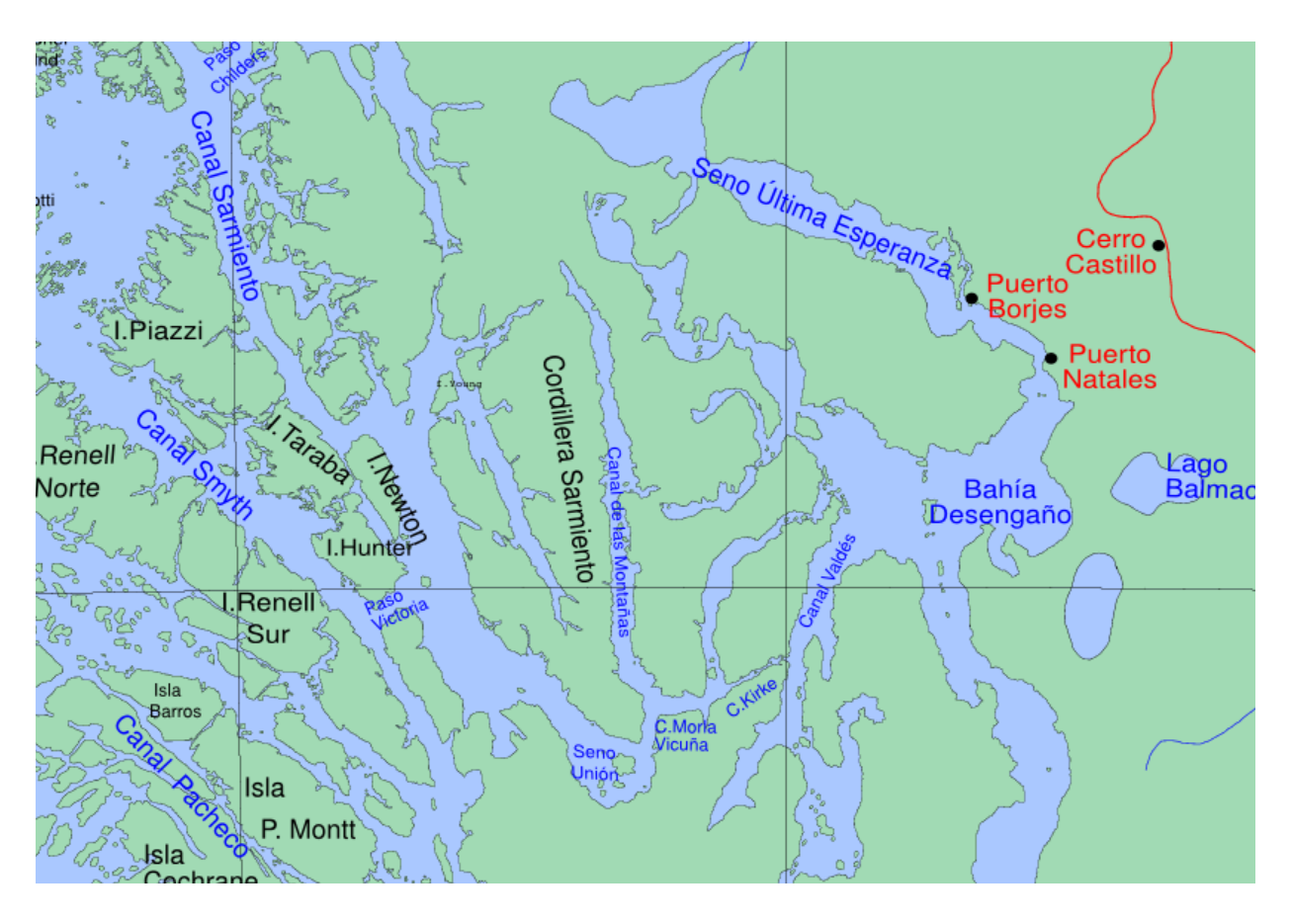 Map of Chile, Puerto Natales, Channels, Bays, Islands